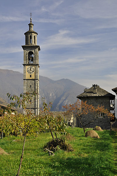 The belfry of the church of Intragna, Switzerland